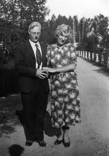 Martti Larni and Viola in Putkilahti 1938